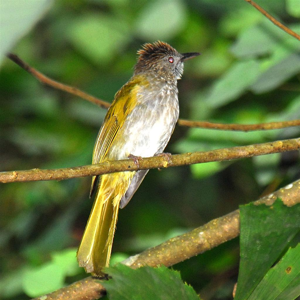 Mountain Bulbul (Hypsipetes mcclellandii) Original text: "Location: Fraser Hill, Malaysia"